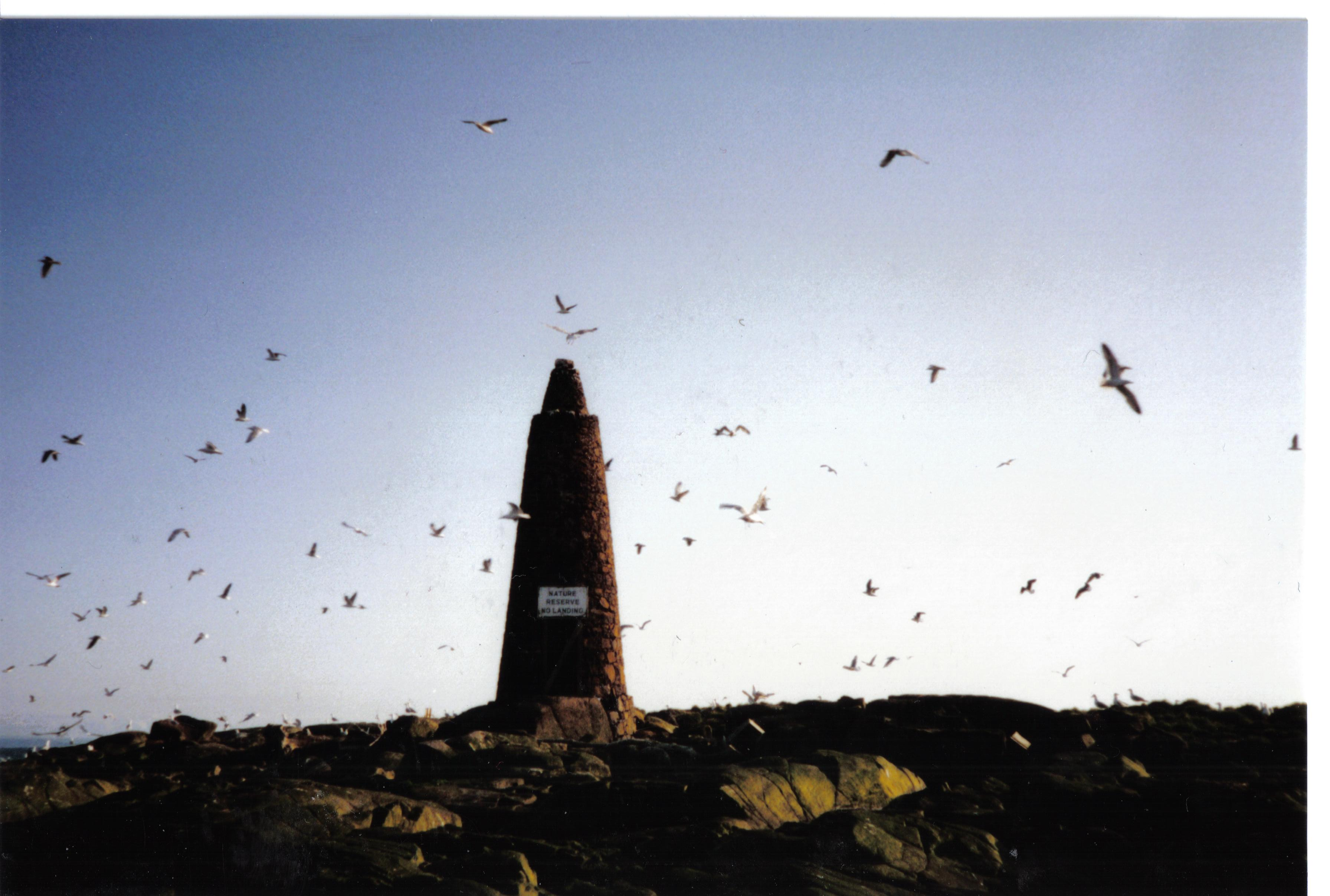 Lady Isle, South Ayrshire. Scotland. A view of the island showing the admiralty marker 'cairn'.